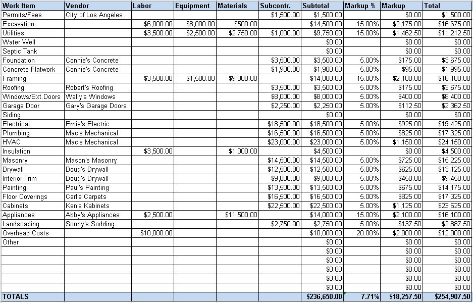 A cost estiamte spreadsheet prepared with computer spreadsheet software